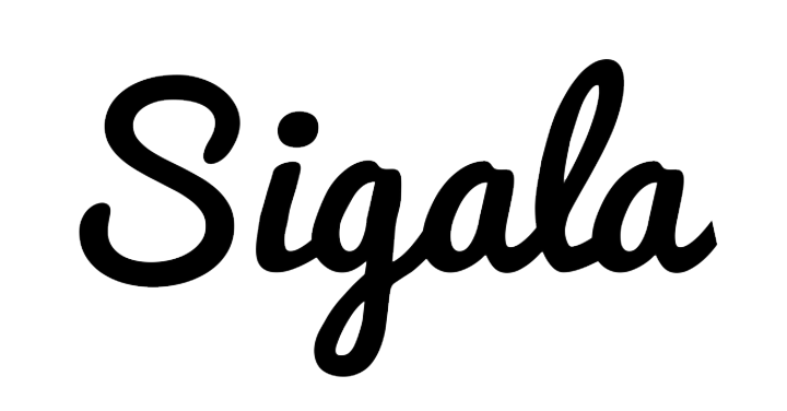 Recreated logo of Sigala.